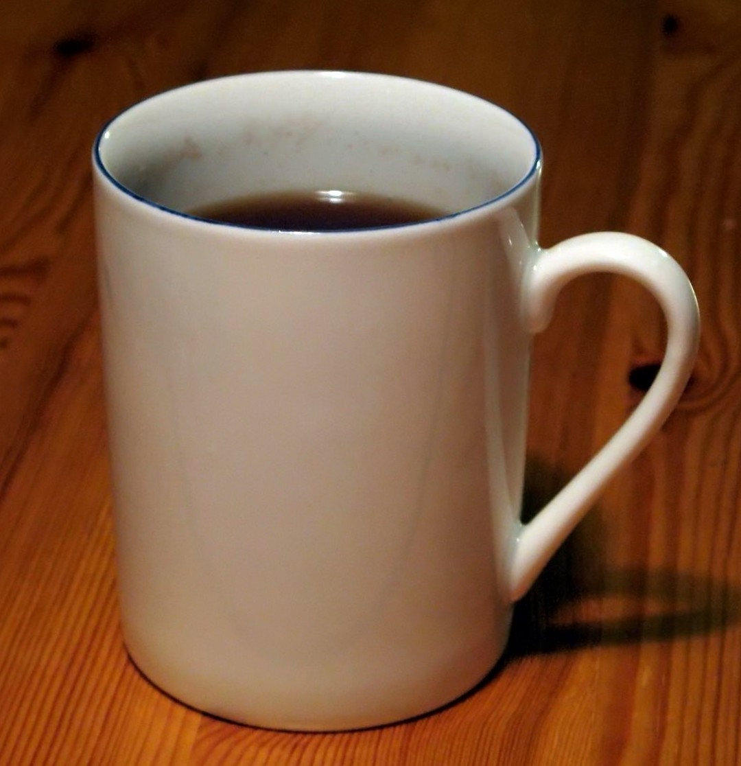 Since somebody objected to the image at Mug which showed a mug bearing the Wikipedia logo, here is a plain mug with no logos.